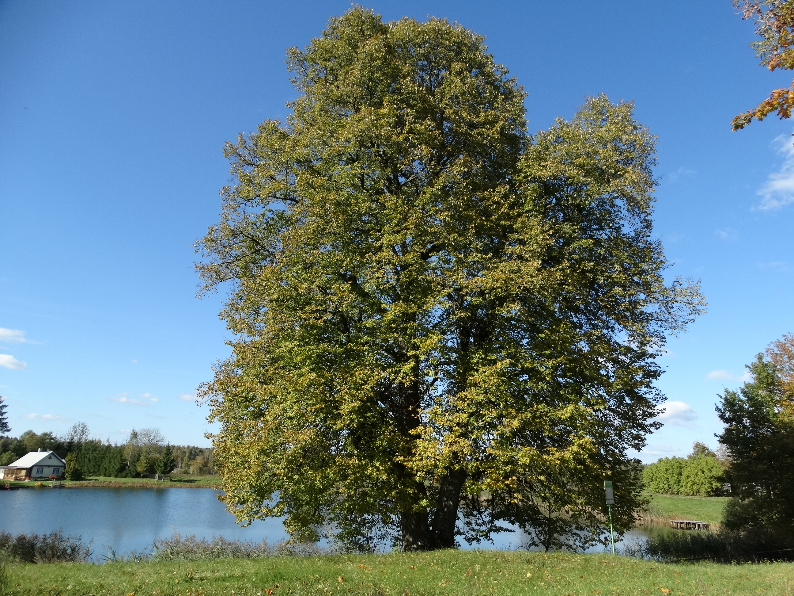 Lime tree, Kaukinė, Kaišiadorys district, Lithuania